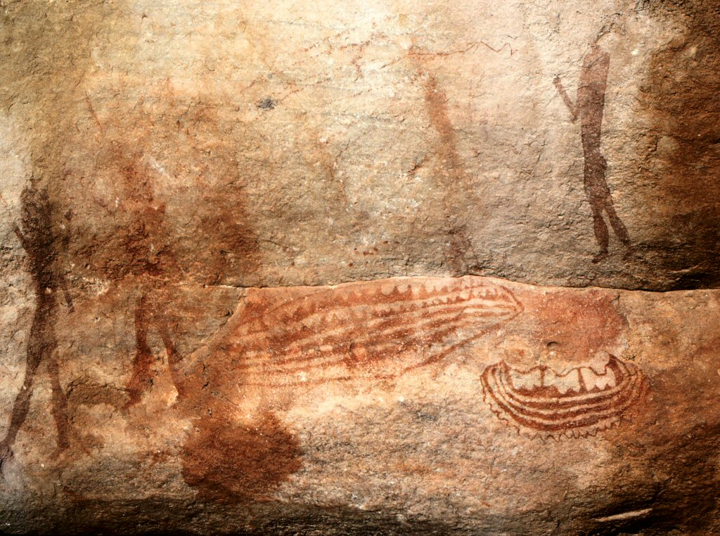 San rock art in Western Cape, South Africa, allegedly depicting a Phoenicean ship during phoenicean circumnavigation of Africa